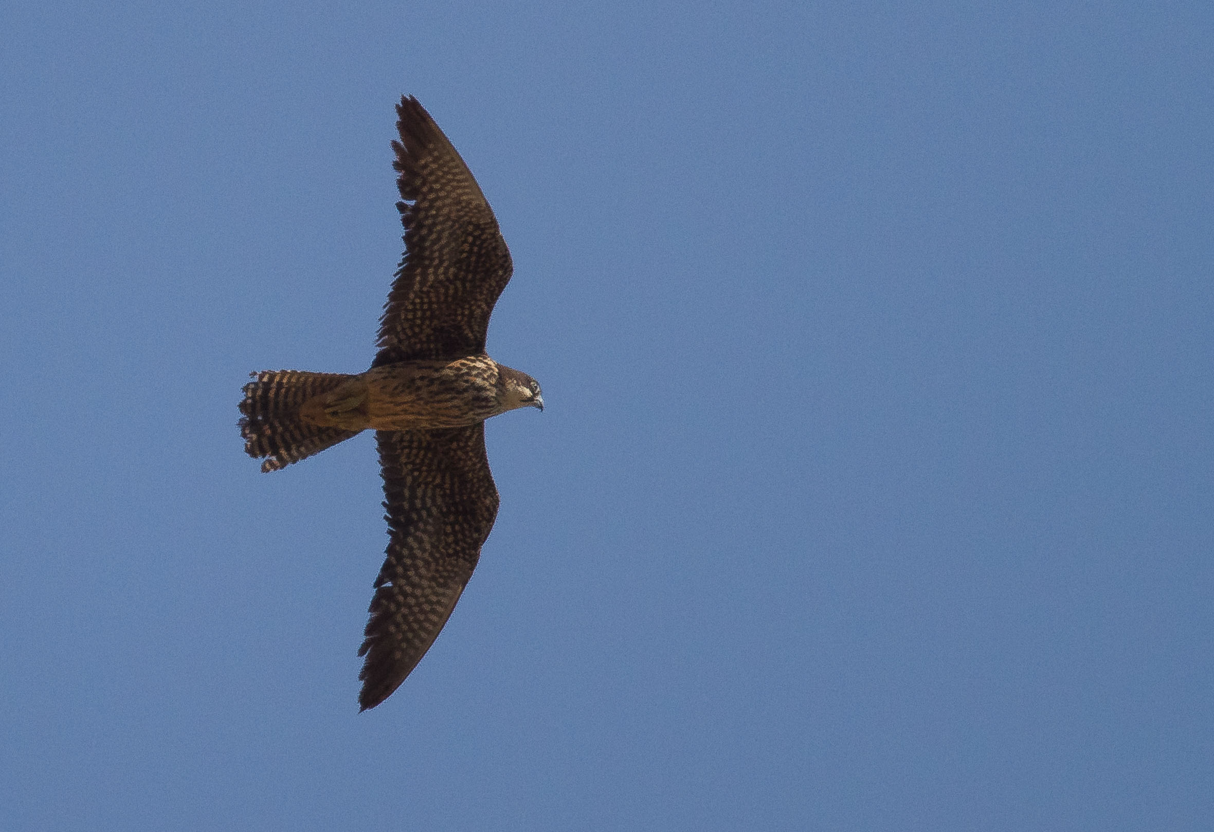 juvenile light morph at Cap Formentor, Mallorca, Spain